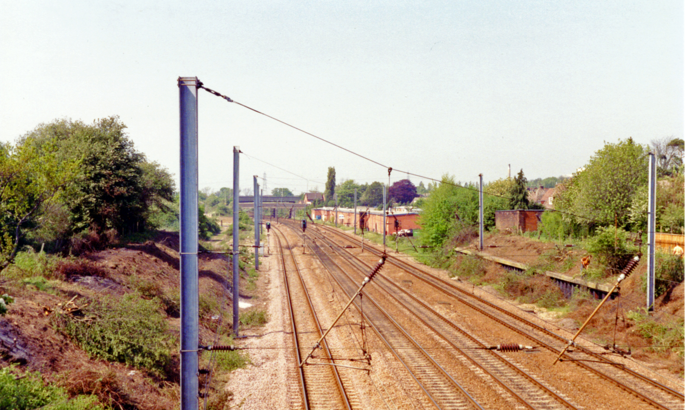 Stevenage: site/remains of old station, East Coast main line 1992. View NW from Guildford Road bridge: ex-GNR London - Doncaster section of the ECML, electrified King's Cross - Hitchin 1976. The station was replaced 23/7/73 by an entirely new station ½-mile to the south.